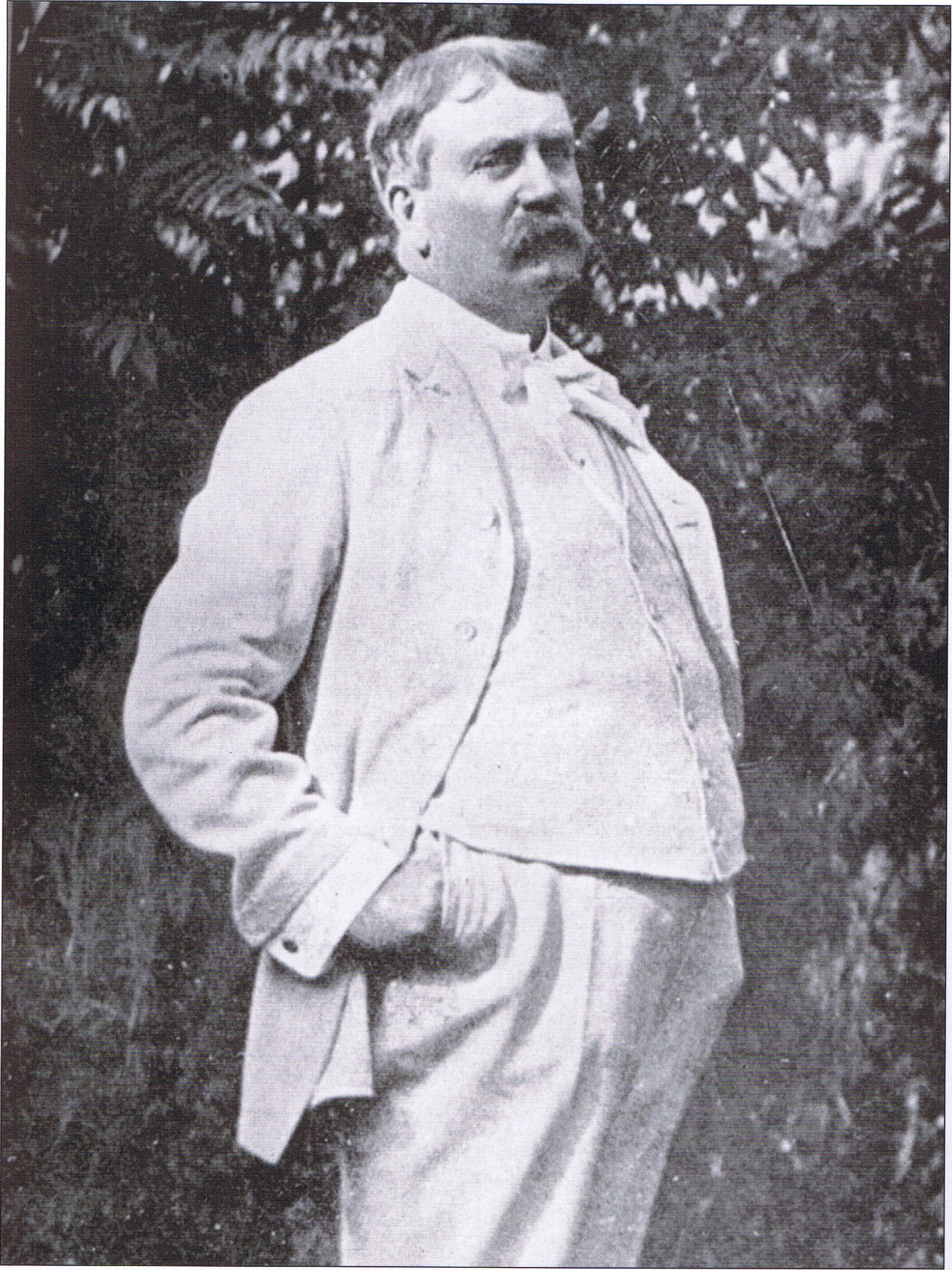 Daniel Burnham on the terrace of his Evanston, IL home.